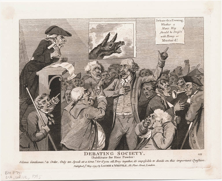 Isaac Cruikshank, Debating Society (Substitute for Hair Powder). London: Published by Laurie & Whittle, May 5, 1795. Etching and engraving.